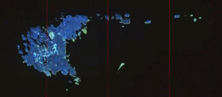 Valaam